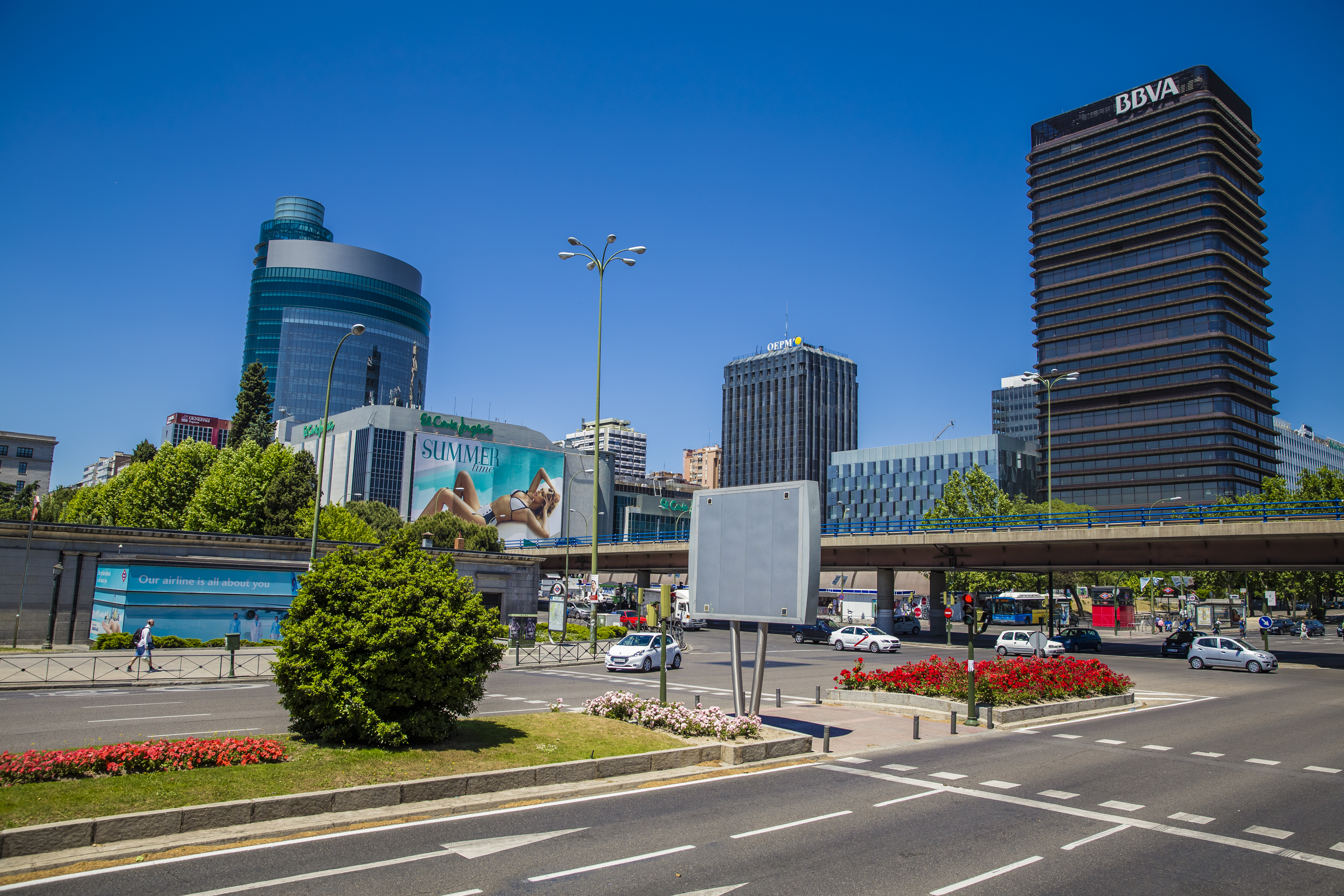 Tour around the City of Madrid Spain